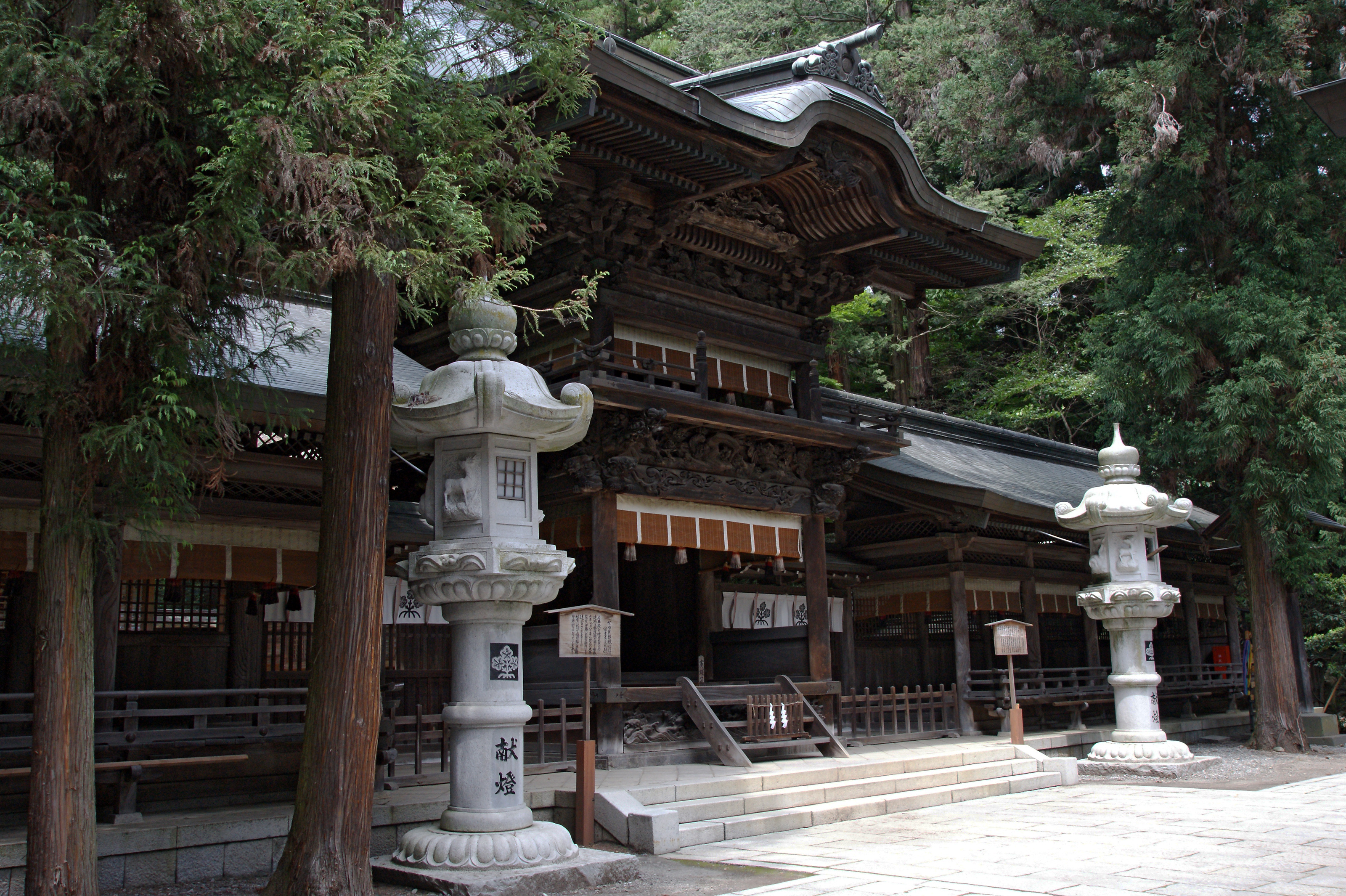 Suwa Taisha Shimosha Harumiya, Shimosuwa, Nagano prefecture, Japan